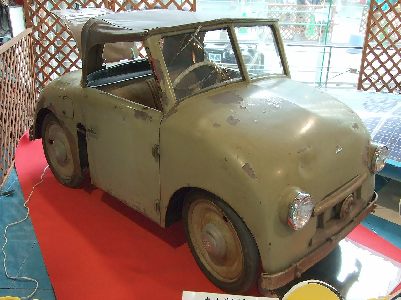 Autosandal FS